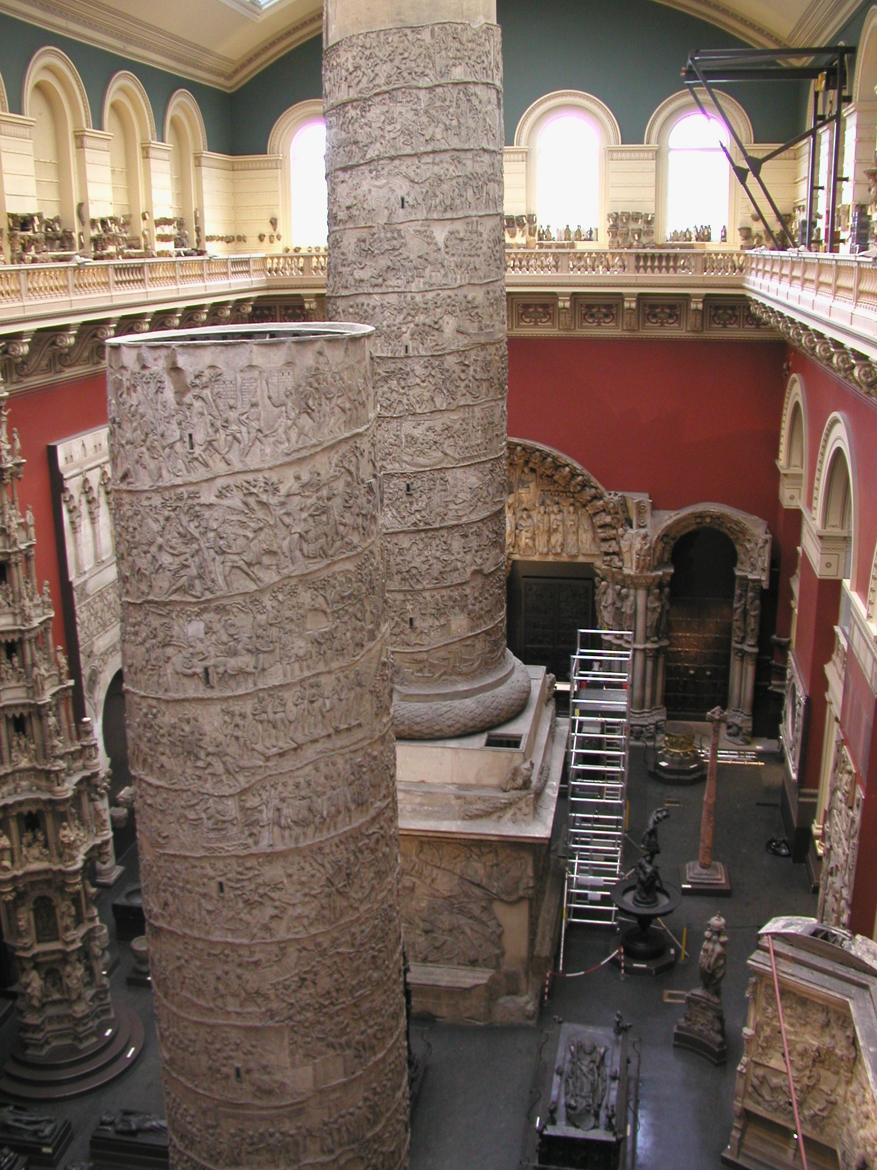 Cast court at the Victoria and Albert museum, London.